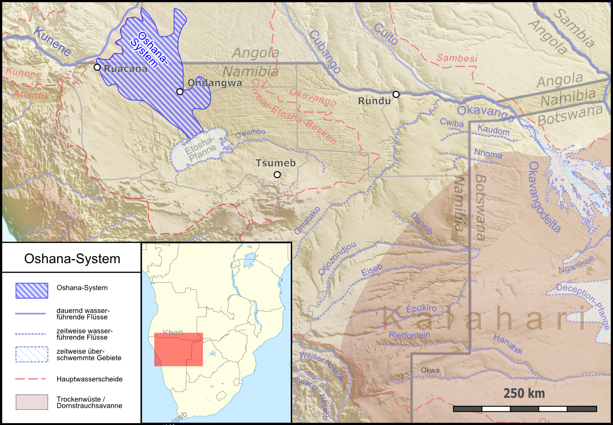 Oshana-System in Namibia und Angola, index in German, pyhsical map